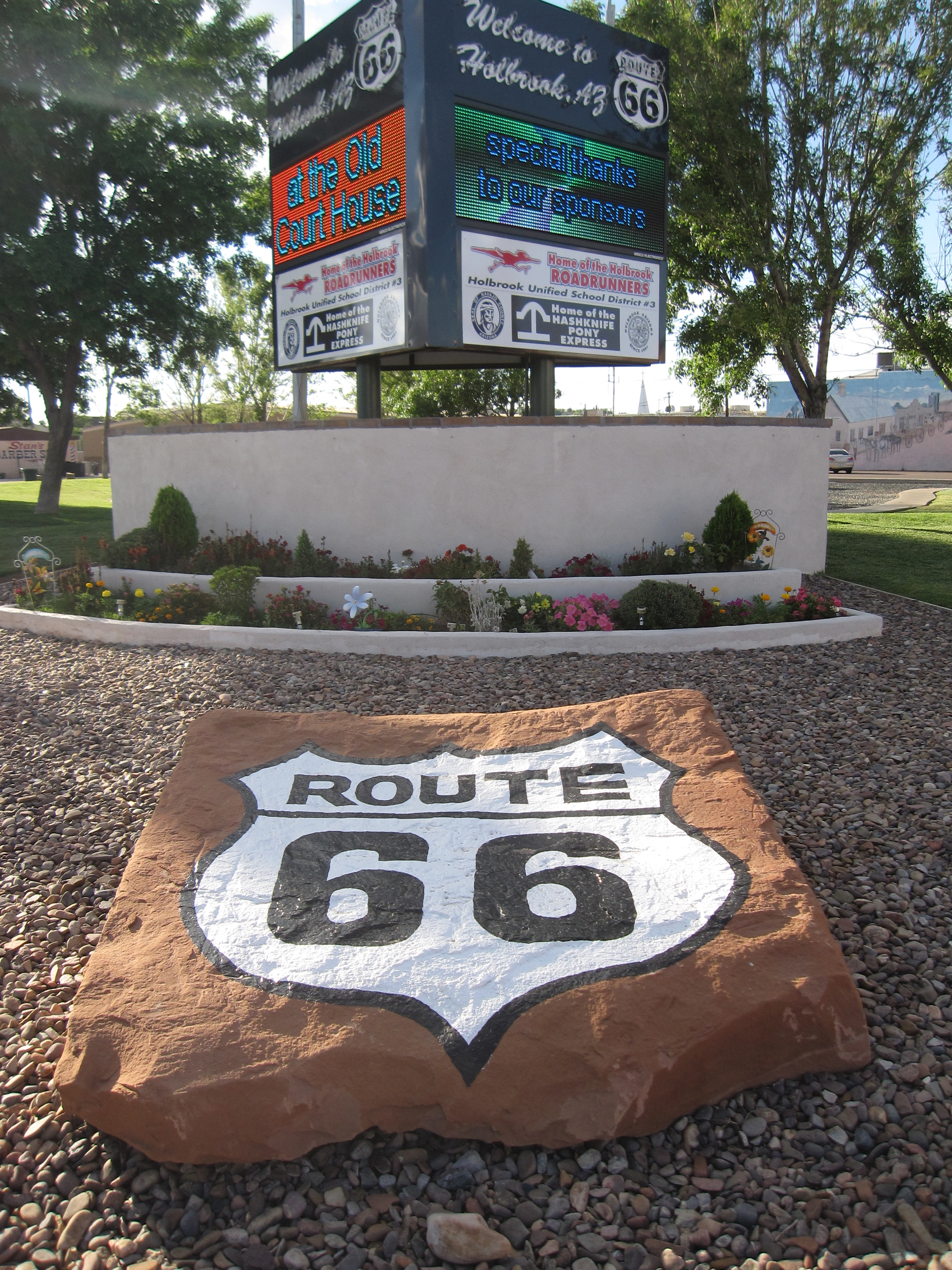 Route 66 marker on the corner of Navajo Blvd and Hopi Drive.